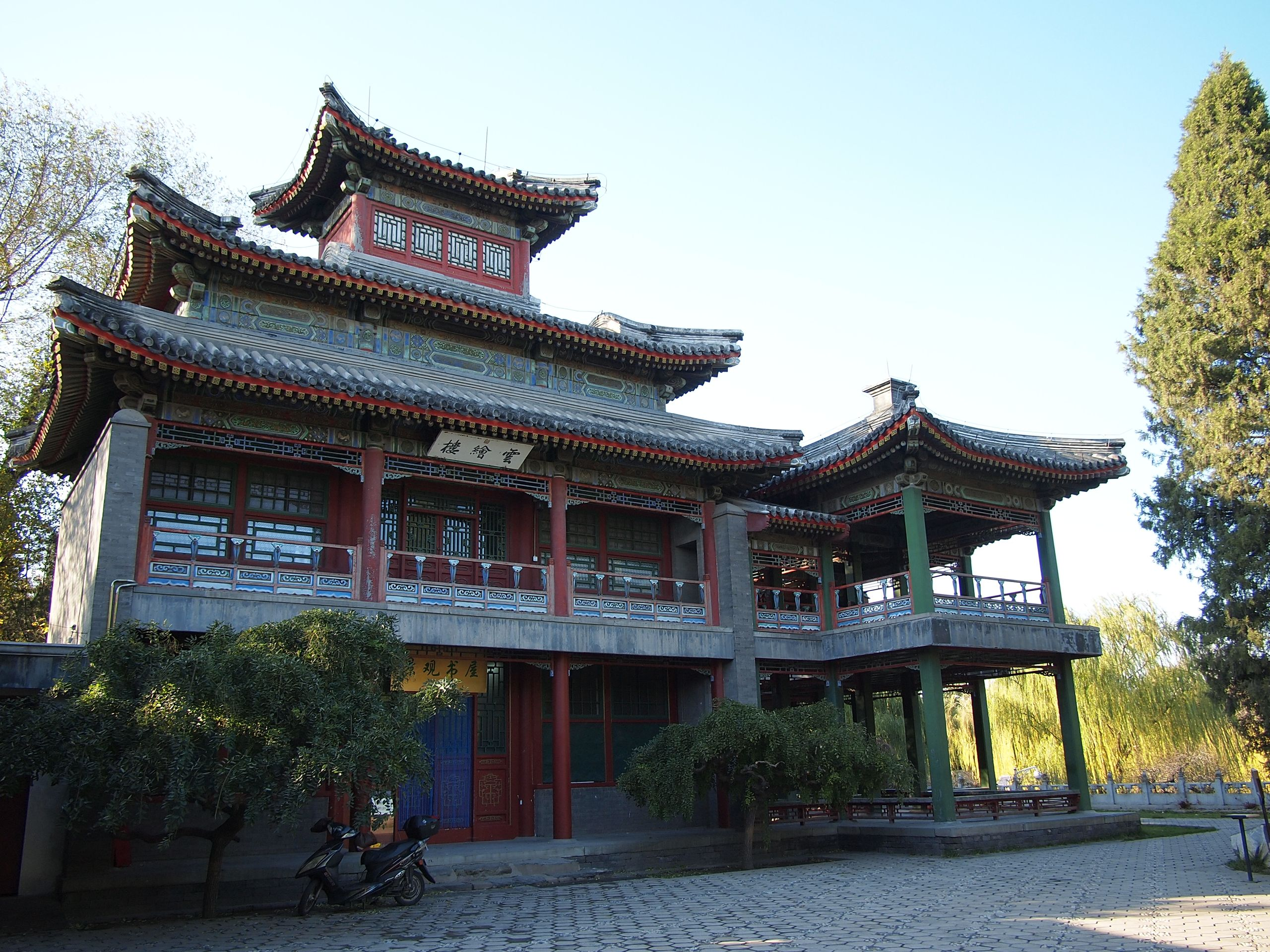 云绘楼 - Cloud-painting Tower - 2011.11